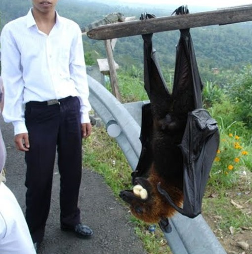 An specimen of Golden-capped Fruit Bat (Acerodon jubatus) beside a man